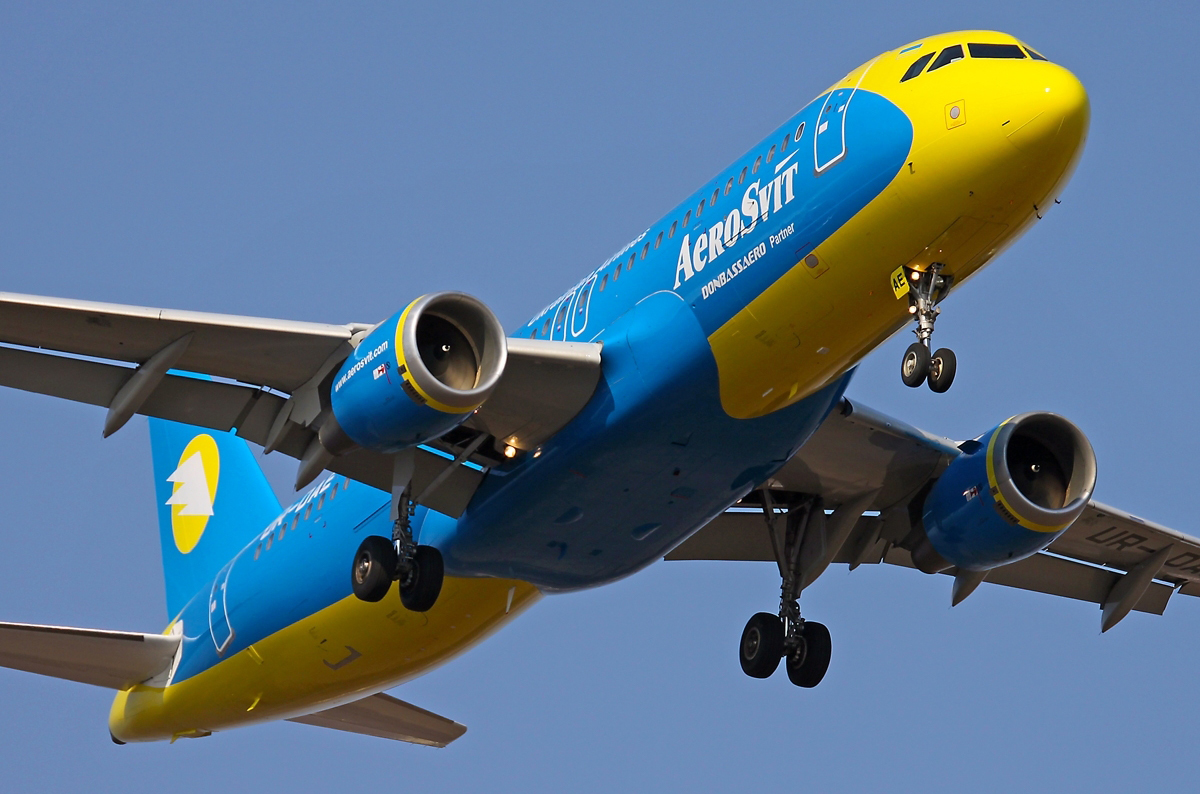 AeroSvit Ukrainian Airlines Aerobus а320, UR-DAE